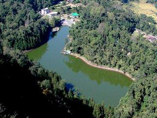 This lake is situated in eastern part of Sikkim, Lampokhari name was given to the lake by Indian-Nepali community because it is long, "Lam" means long and "Pokhari" means Lake, so don't be confused saying "Lampokhari lake", locals can recognize it easily just by saying Aritar lake.